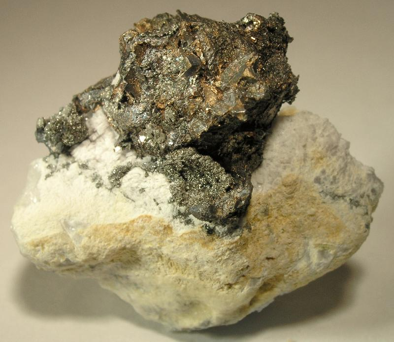 Allargentum Locality: Harsted, Saxony, Germany Size: miniature, 3.2 x 2.7 x 1.4 cm Allargentum A fairly rare Silver-Antimony mineral, this specimen has well-defined crystals [Note: These formations are no crystals, but casts of the carbonate the allargentum is typically embedded in. - pH] interspersed with massive Allargentum, all on matrix. With such good metallic luster and actual crystals, this is a very fine specimen. Ex. Marilyn Dodge Collection.